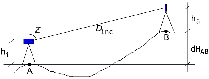 Schematic diagram of trigonometric leveling